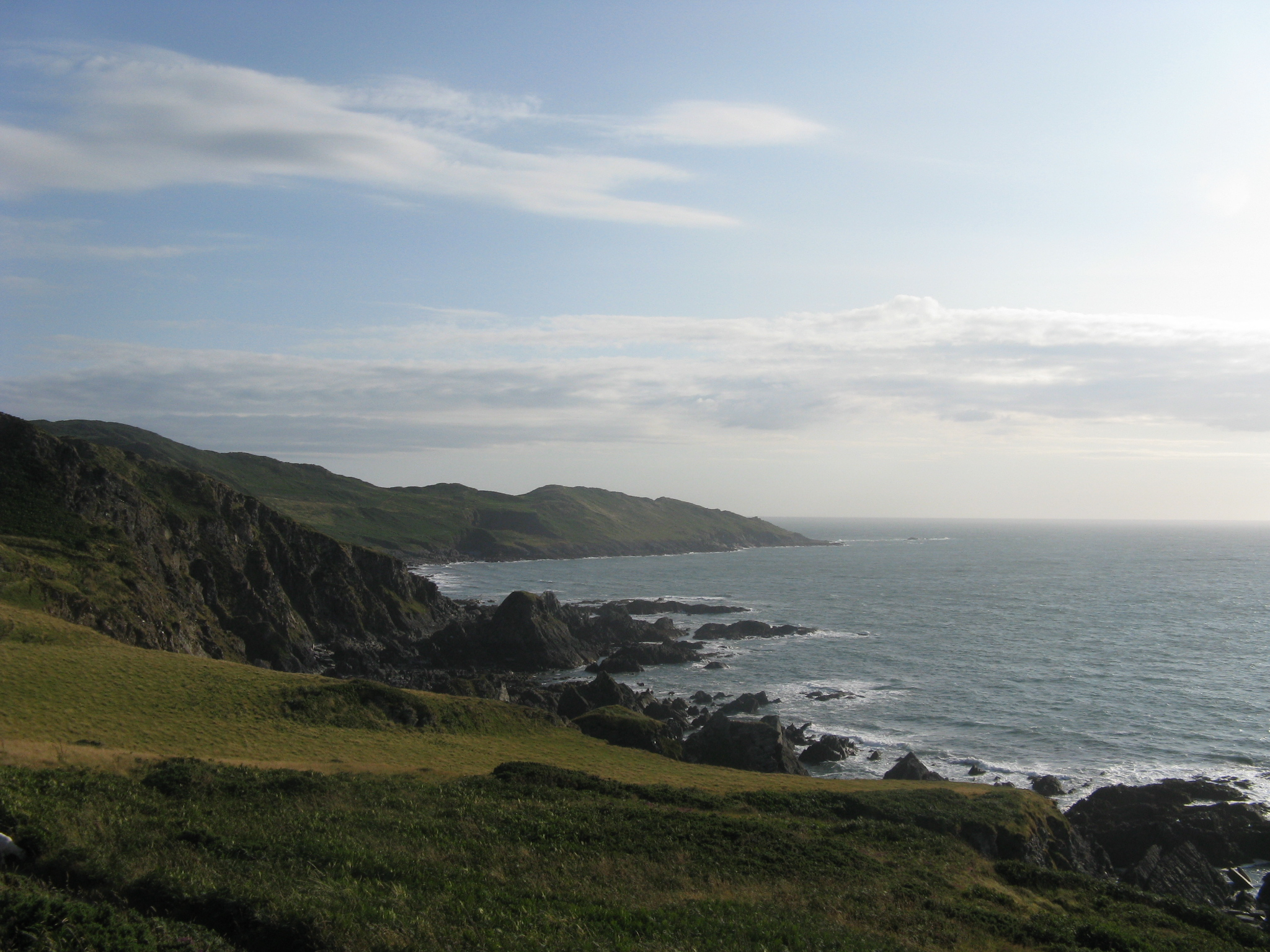 Morte Point, Devon/England